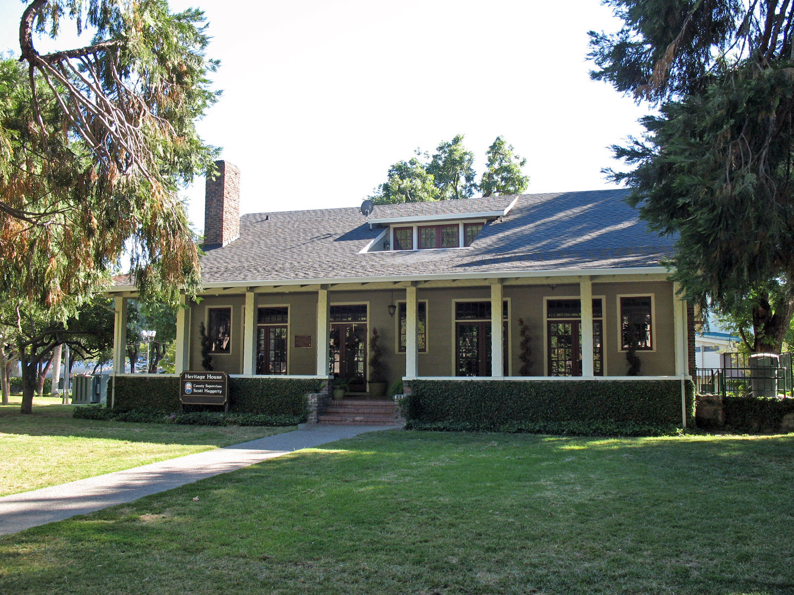 National Register of Historic Places listings in Alameda County, California. Heathcote-MacKenzie House, 4501 Pleasanton Ave, Pleasanton, CA. Photographed July 26, 2009 from Alameda County Fairgrounds.